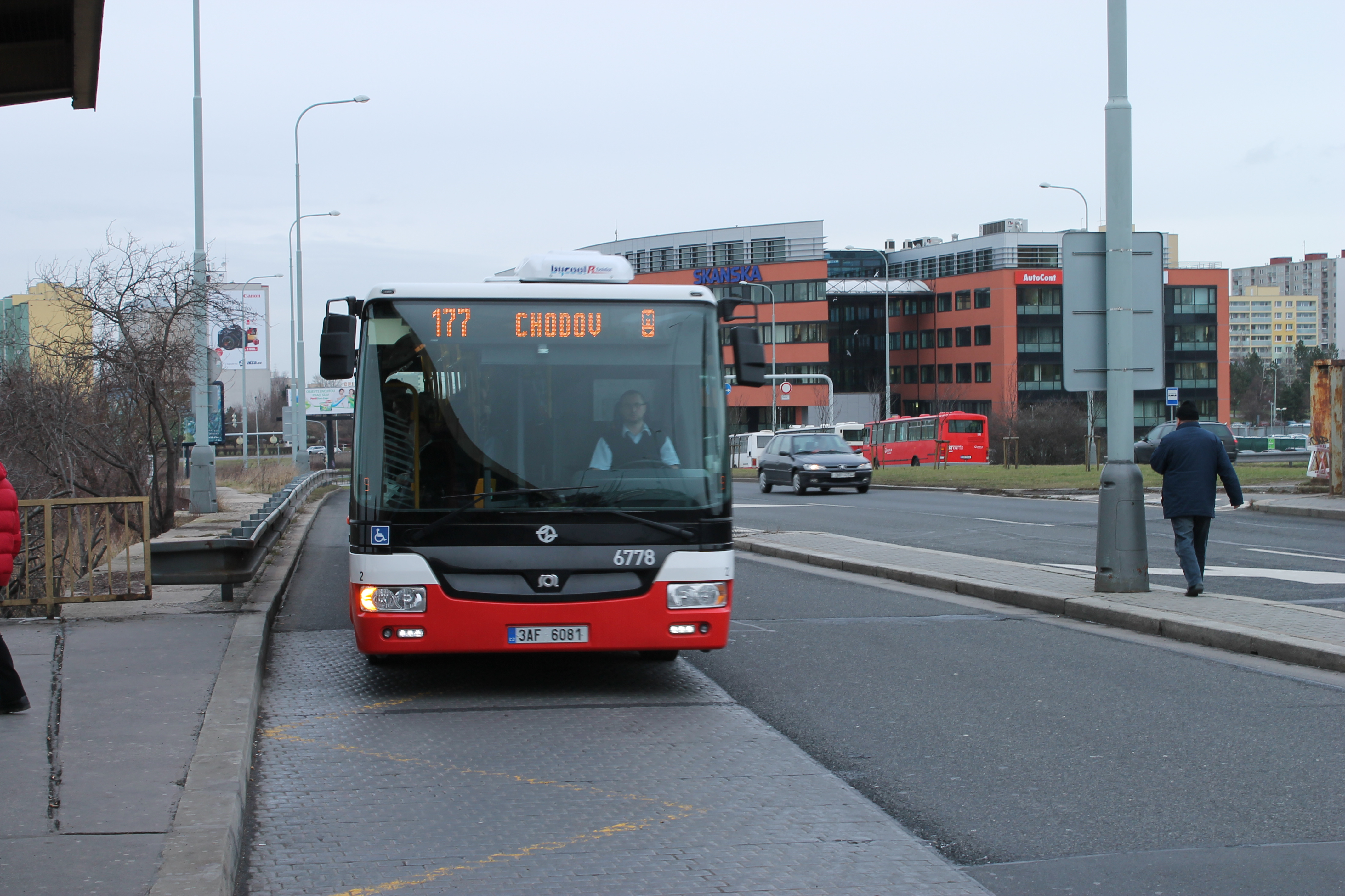 Bus SOR NB 18, number 6778, line 177, Opatov stop, Prague